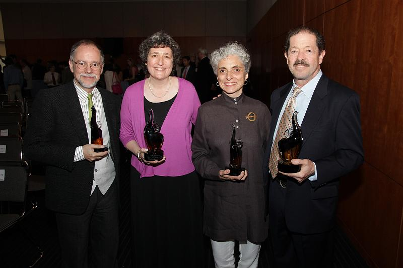 From the 2012 P.T. Barnum Awards: From left, author Gregory Maguire (G90), NBC News Producer Marian Porges (J82), dancer and artistic director Betsy Gregory (J73), and actor Jonathan Hadary.